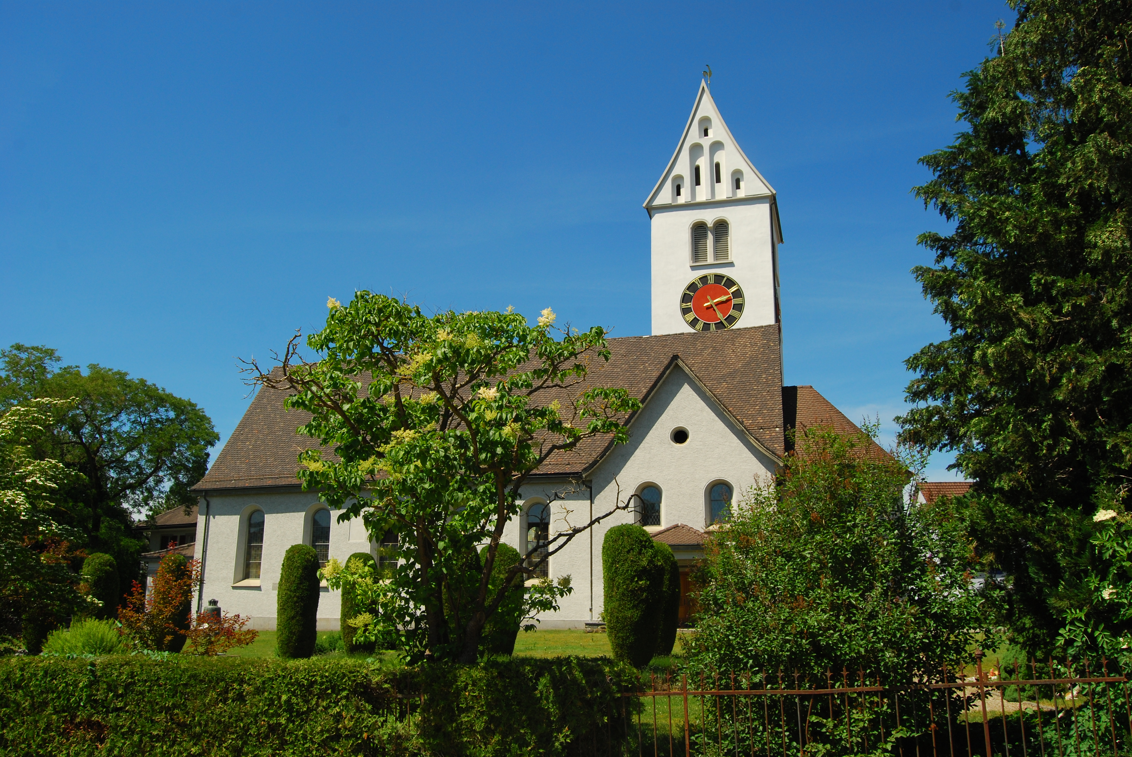 Protestant church of Wängi, canton of Thurgovia, Switzerland